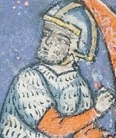 Nureddin, Sultan of Damascus